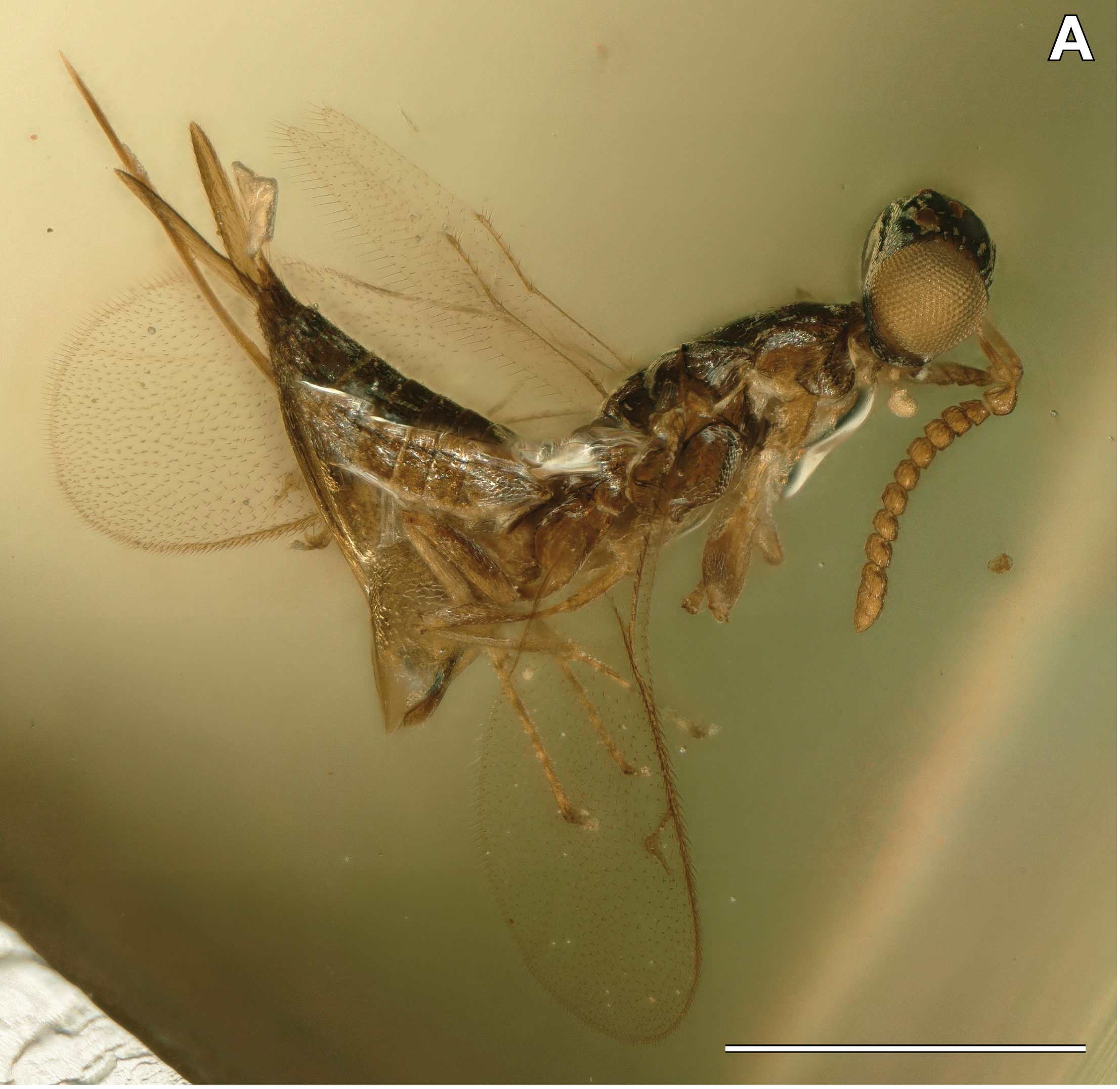 Specimens of Burminata caputaeria and Glabiala barbata parasitic wasps from the Burmese Amber